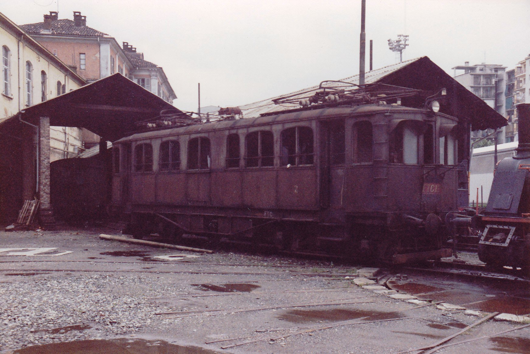 Electric railcar FTC 17 in the former Torino Ponte Mosca station